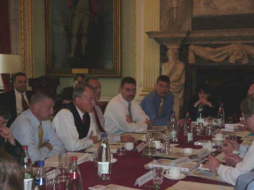 Office of International Security Operations Director COL Charles Wilson (second from left) leading the United States Delegation in the annual U.S./U.K. Political-Military talks regarding base access to the British-owned island of Diego Garcia. Other Department of State representatives include ISO Action Officer LCDR Tripp Hardy (second from right) and U.K. Desk Officer Rebecca Dunham (first from right). (Department of State photo, September 2002)